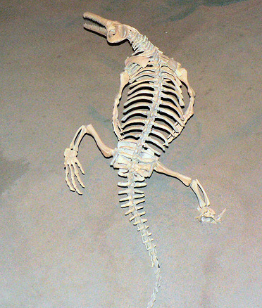 Champsosaurus skeleton at the Royal Tyrrell Museum.